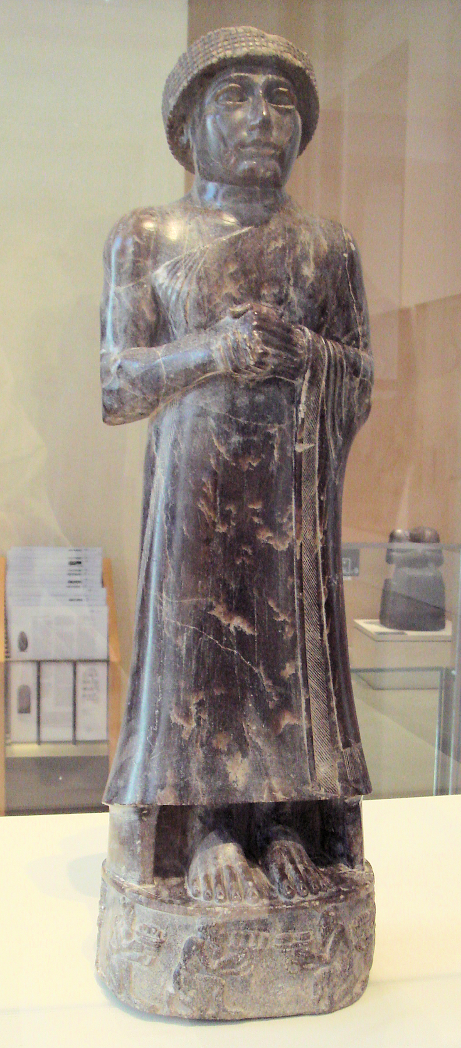 Ur-Ningirsu ruler of Lagash circa 2110 BCE. Body: AO 9504 Head: MMA 47.100.86